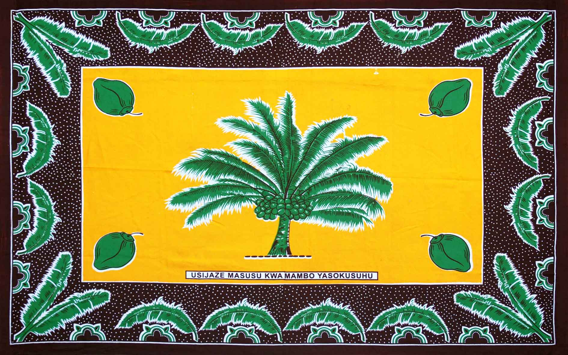 Photo taken at a wholesale, Dar es Salaam (Tanzania), 2011. Text in Swahili: Usijaze masusu kwa mambo yasokusuhu. English translation: Do not get involved in matters that do not concern you.